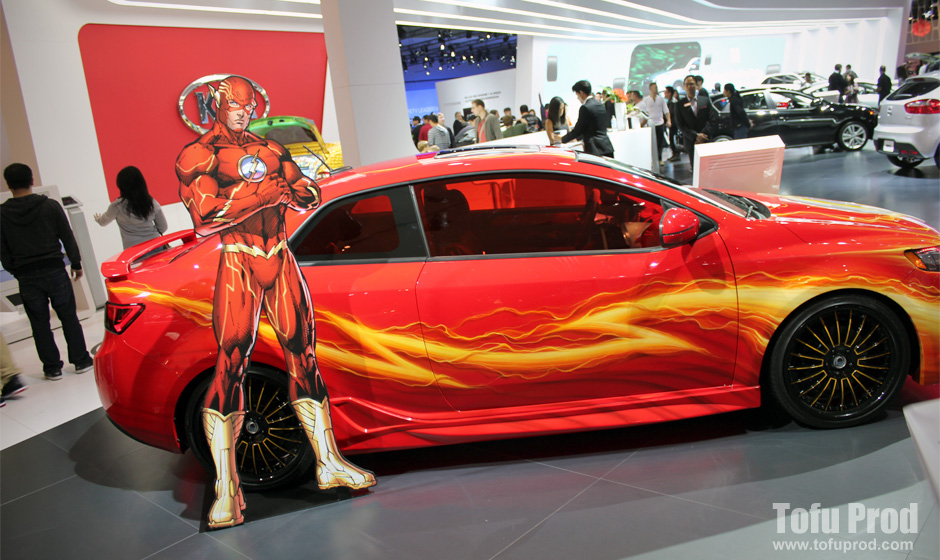 LA Auto Show 2012